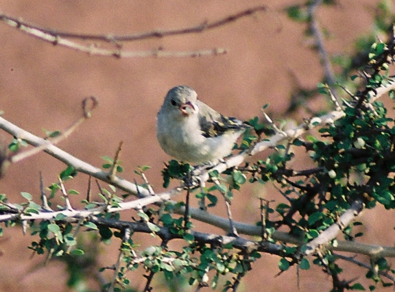 By: Rajeev B, Picture taken on a bush near Kotaballappalli. Camera: Nikon-F80S